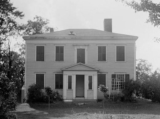 General William North House, North Mansion Road, Duanesburg (Schenectady County, New York) cropped This file comes from the Historic American Buildings Survey (HABS), Historic American Engineering Record (HAER) or Historic American Landscapes Survey (HALS). These are programs of the National Park Service established for the purpose of documenting historic places. Records consist of measured drawings, archival photographs, and written reports. When reusing please credit: Library of Congress, Prints & Photographs Division, NY,47-DUBU,3-1 This tag does not indicate the copyright status of the attached work. A normal copyright tag is still required. See Commons:Licensing. This work is in the public domain in the United States because it is a work prepared by an officer or employee of the United States Government as part of that person’s official duties under the terms of Title 17, Chapter 1, Section 105 of the US Code. Note: This only applies to original works of the Federal Government and not to the work of any individual U.S. state, territory, commonwealth, county, municipality, or any other subdivision. This template also does not apply to postage stamp designs published by the United States Postal Service since 1978. (See § 313.6(C)(1) of Compendium of U.S. Copyright Office Practices). It also does not apply to certain US coins; see The US Mint Terms of Use. This file has been identified as being free of known restrictions under copyright law, including all related and neighboring rights. Object location42° 45′ 13″ N, 74° 06′ 52″ W